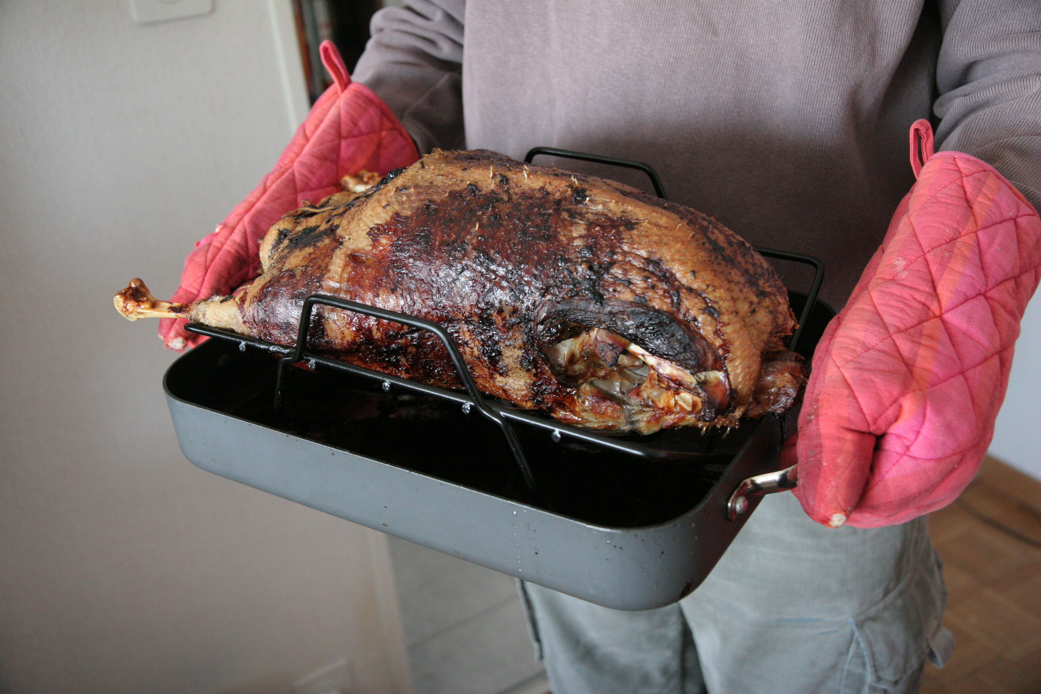 A roasted goose